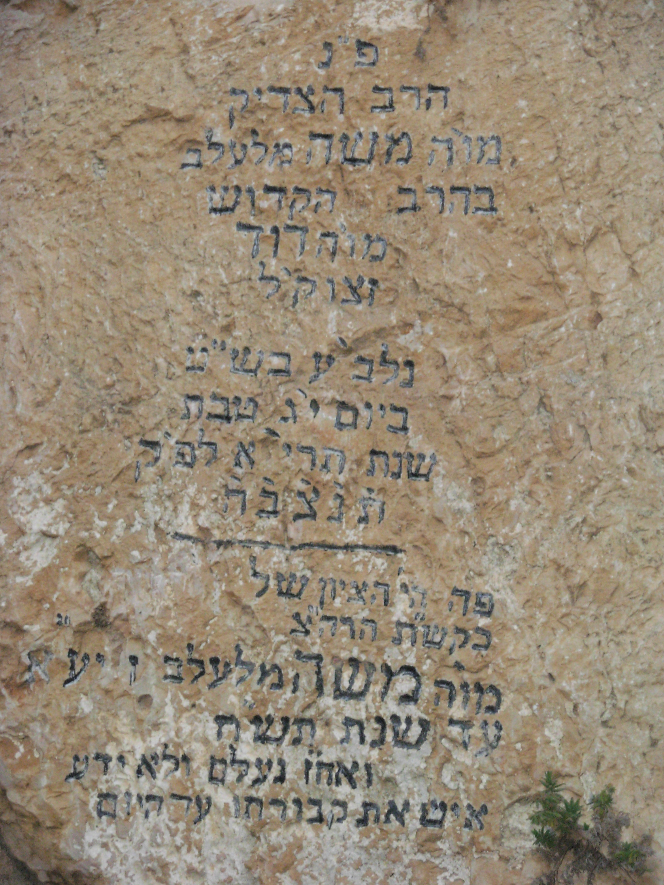 Graffiti Marking spot where the grave of Rabbi MOshe Biderman used to be